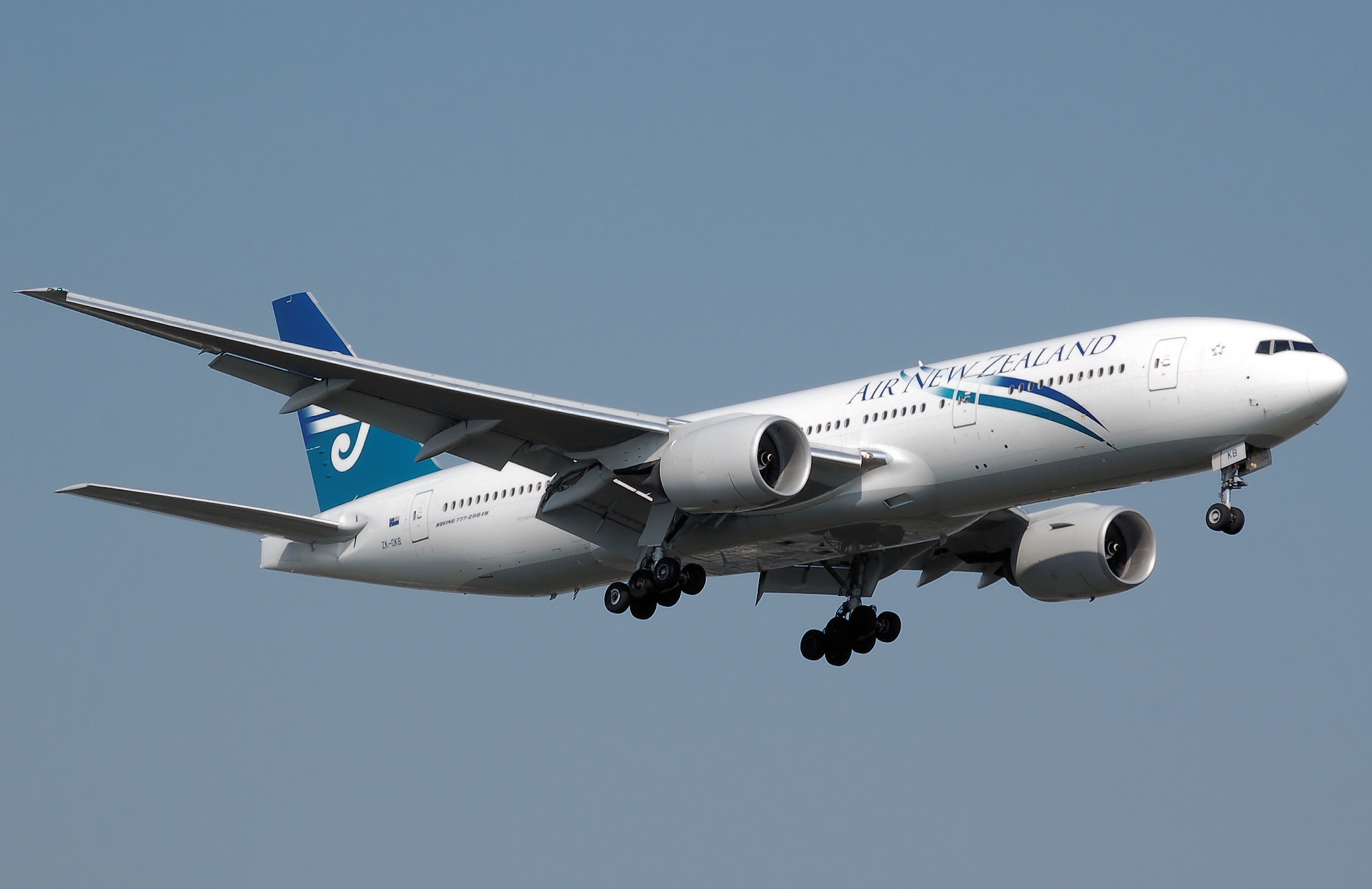 Air New Zealand Boeing 777-200ER (ZK-OKB) lands at London Heathrow Airport. Photographed by Adrian Pingstone in July 2007 and placed in the public domain.